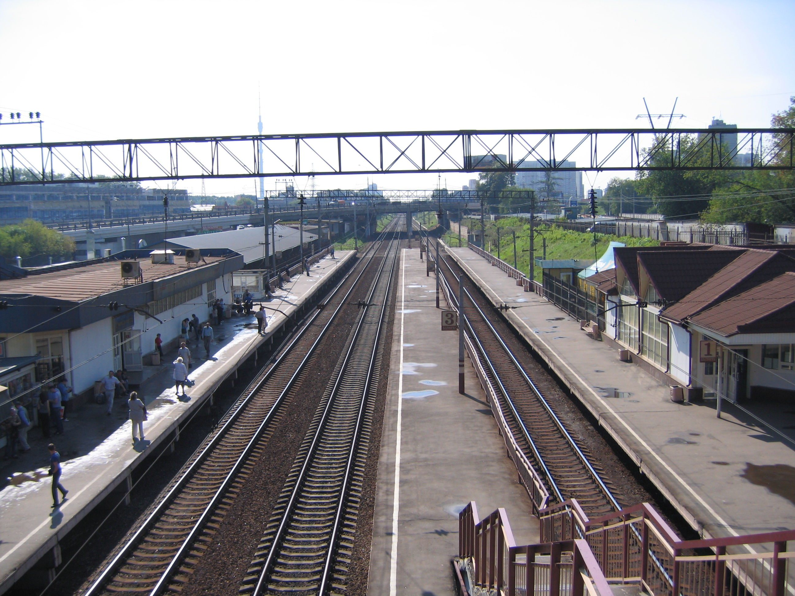 Petrovsko-Razumovskoye railway station in Moscow, Russia